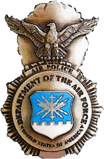 Digital painting of the former U.S. Air Force Air Police Badge